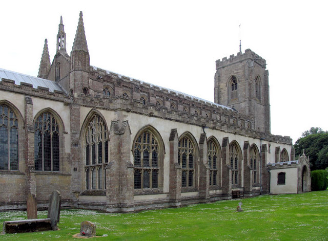 Nave and west tower of St Peter's parish church, Walpole St Peter, Norfolk, seen from the northeast